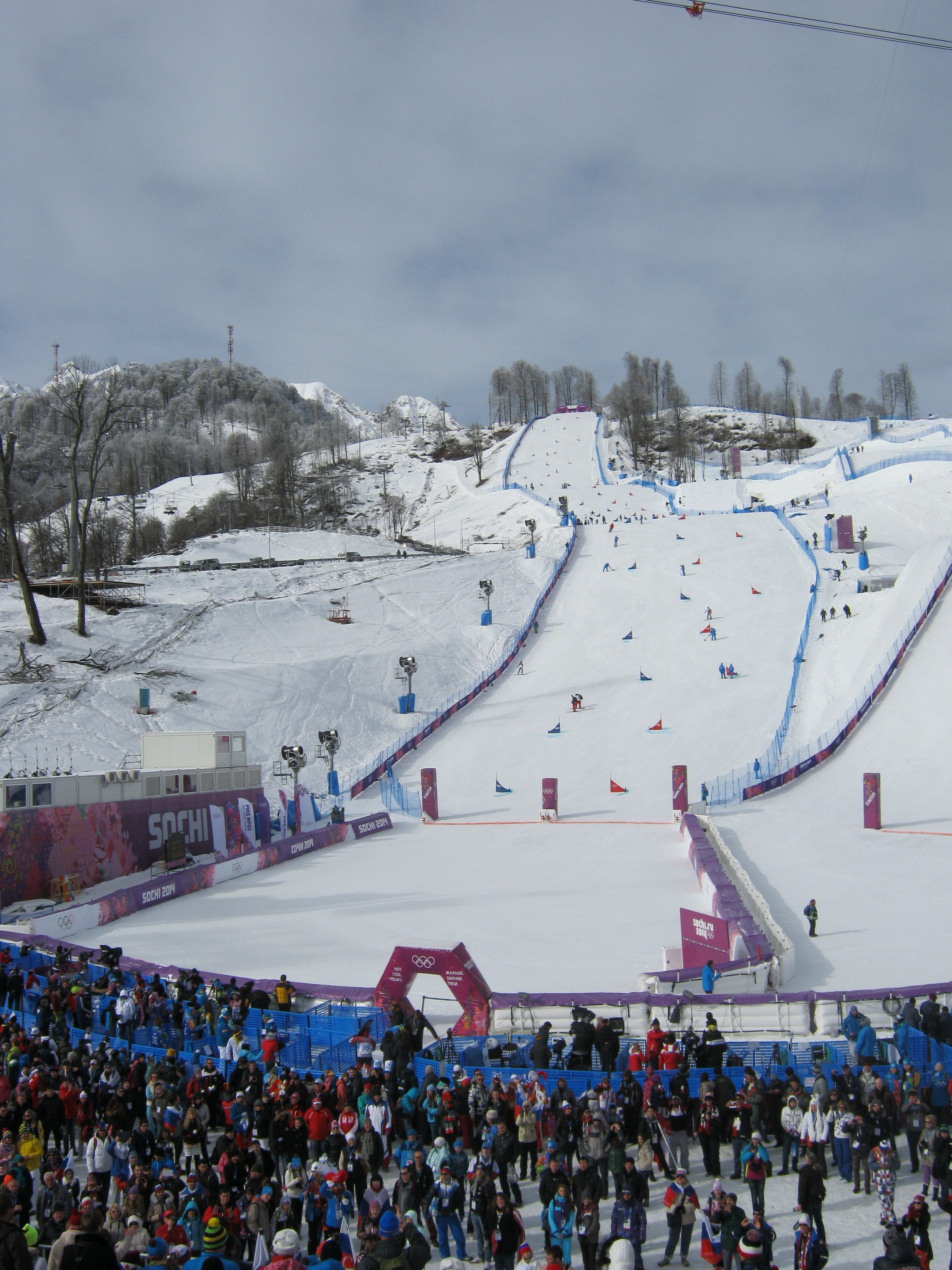 Snowboard parallel giant slalom course at 2014 Winter Olympics. Rosa Khutor Extreme Park. February 19, 2014